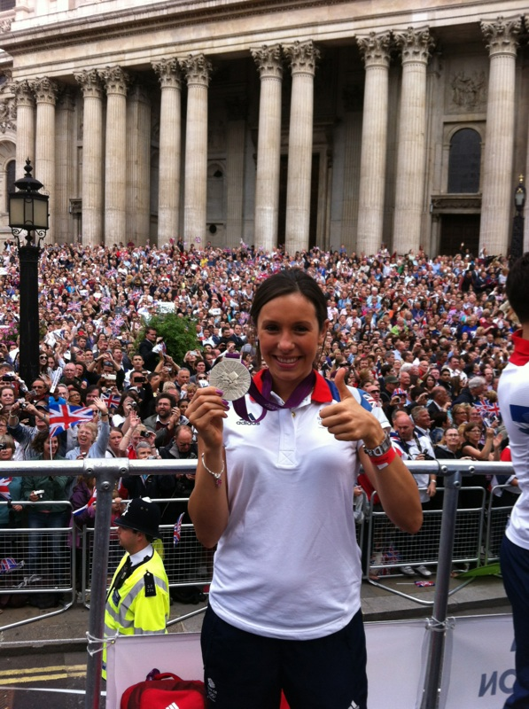 Samantha Murray holding her silver medal at the London 2012 Olympics after winning the Women's Modern Pentathlon